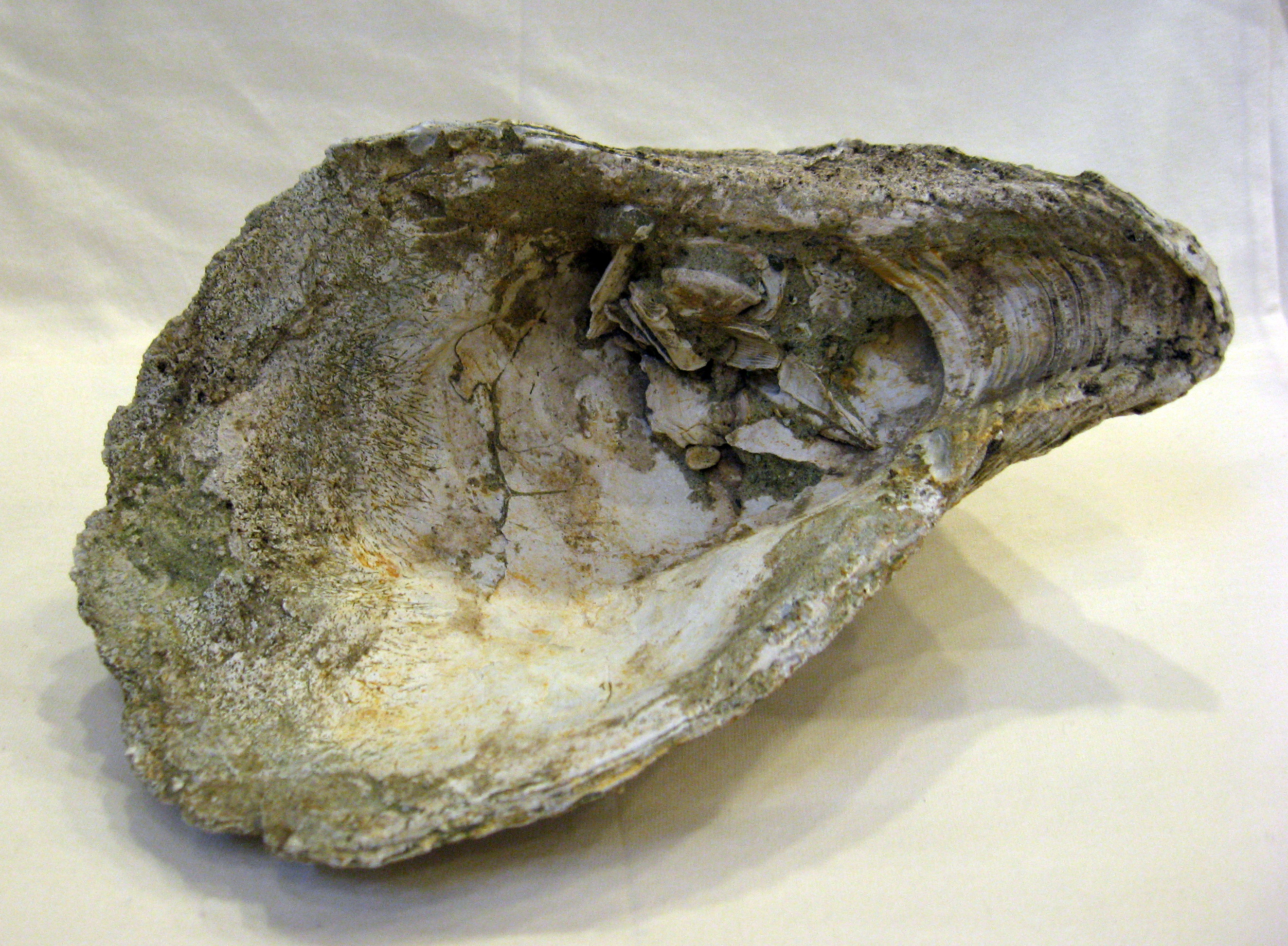 A 23 centimetres (9.1 in) fossil Crassostrea titan valve. Middle Miocene; Santa Margarita Formation, California, USA; Stonerose Interpretive Center Collection # SR DU 10-01-01